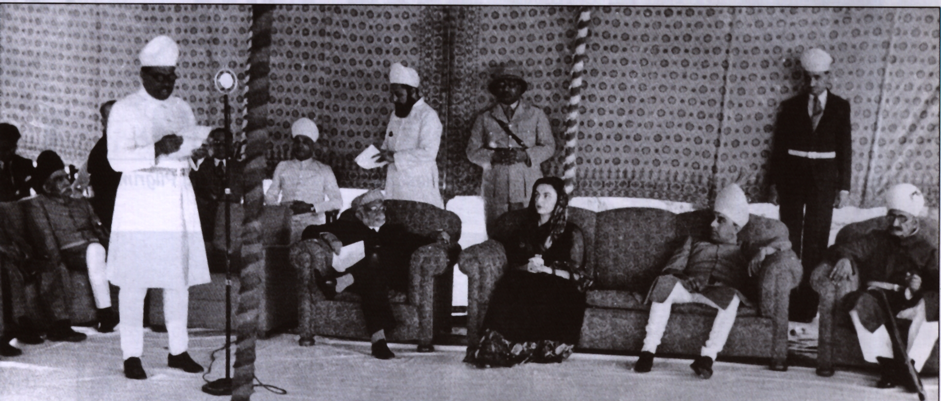 Inauguration of the Osmania Hospital out-patient clinic in Hyderabad (Deccan). Seated dignitaries (left to right): Akbar Hydari(finance minister), Dr. Naidu, Princess Dürreshwar, Azam Jah, Kirshen Pershad (prime minister), 1930